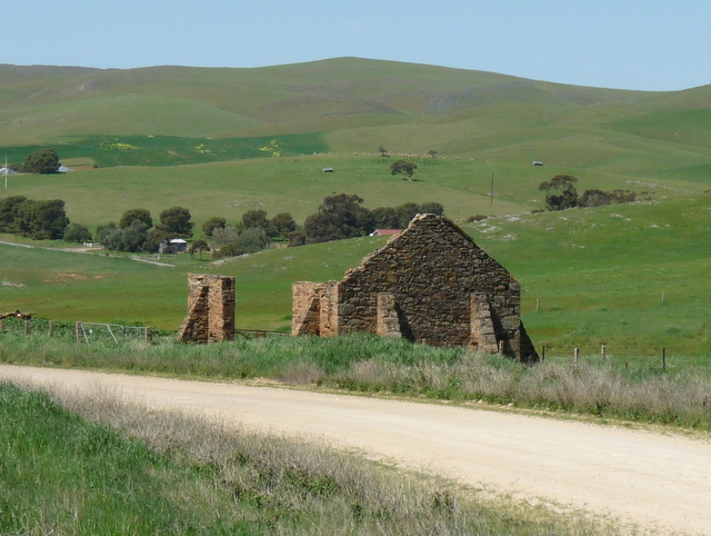 The unusual buttressed walls of a ruined building at Hansborough, South Australia